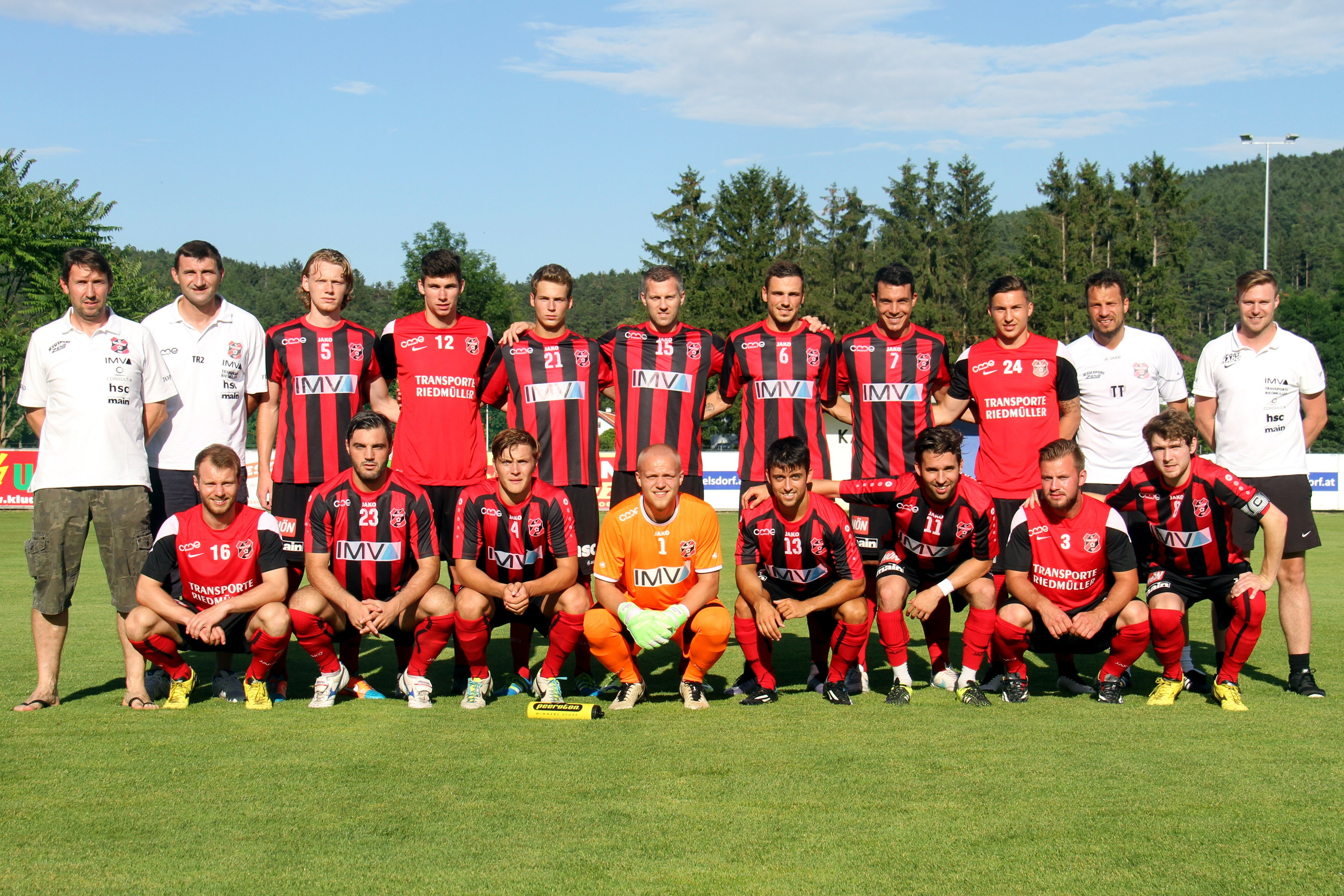 Friendly match SC Mannsdorf (red shirts) vs. SC Wiener Neustadt (blue shirts) 0-2 in Katzelsdorf on 2016-07-01. – The photo shows the team of SC Mannsdorf.